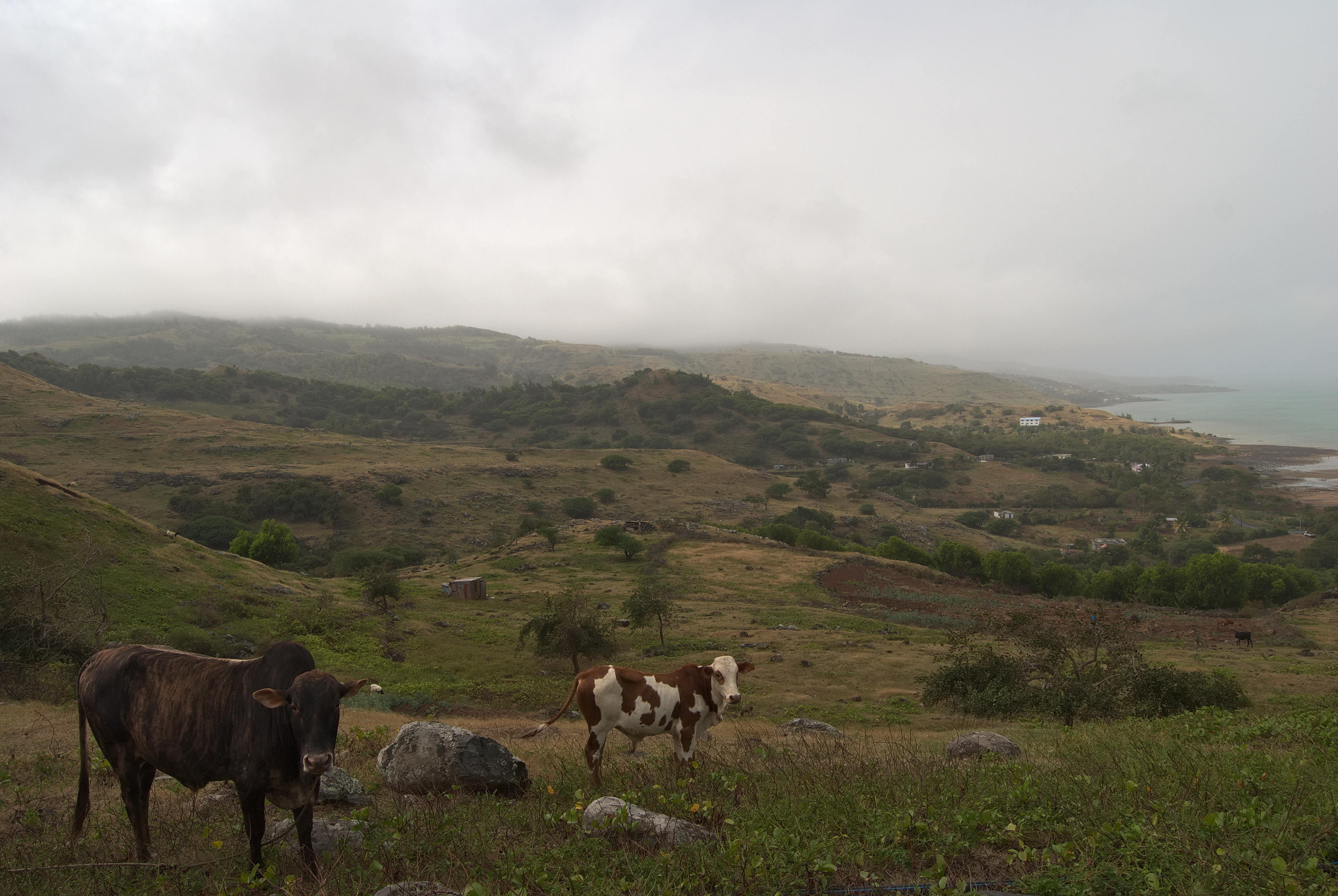 Cattle grazing in a field overlooking Rivière Cocos.